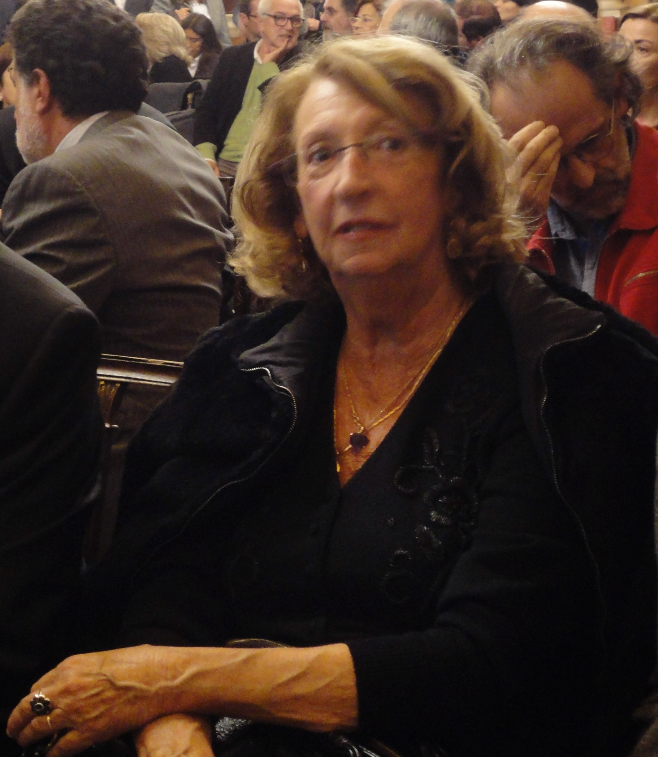 Pedro Botelho, Helena Almeida, Artur Rosa, 2012